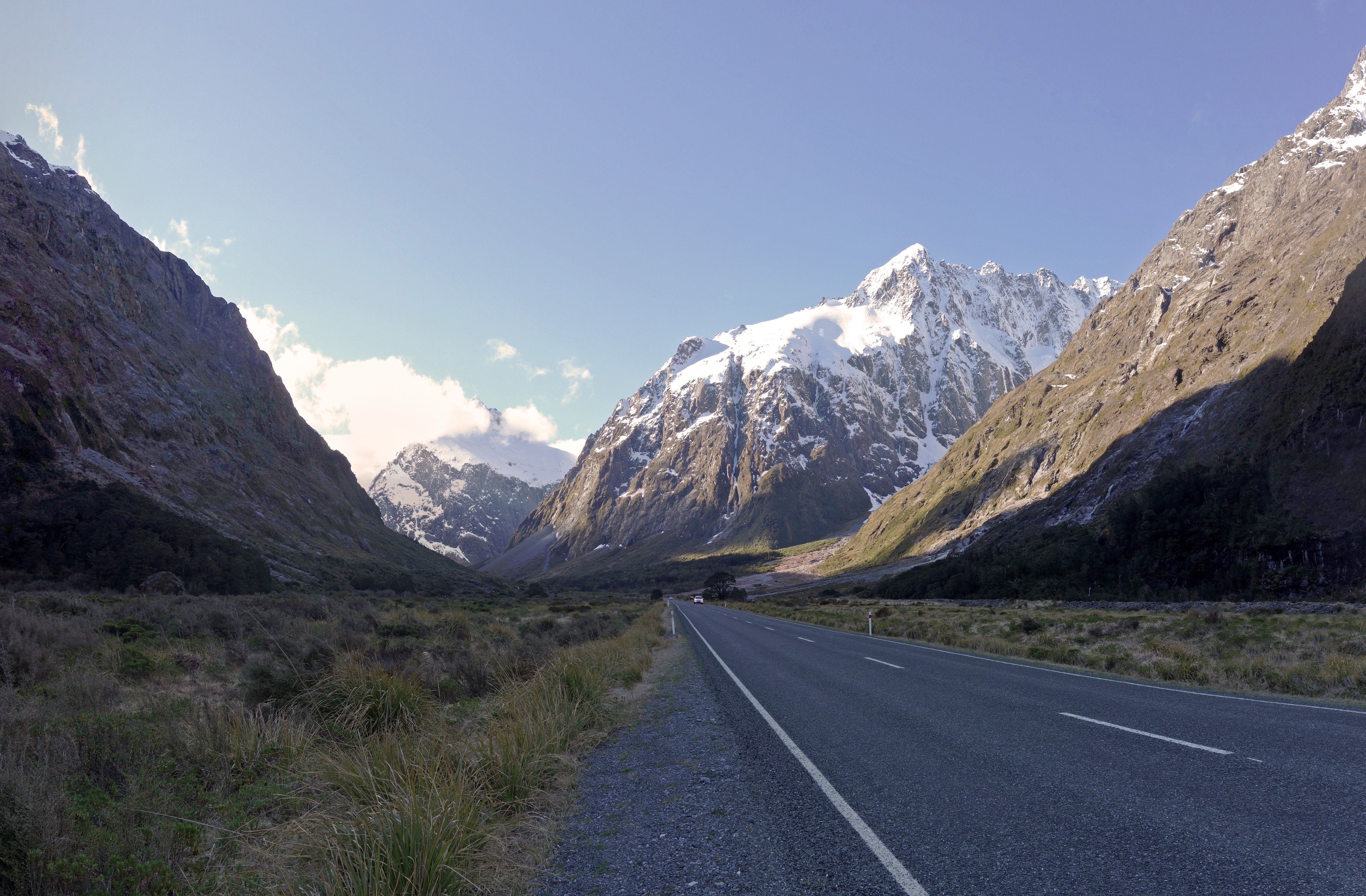 New Zealand's State Highway 94 as it travels through the Hollyford Valley towards Milford Sound. Mount Crosscut rises right of center